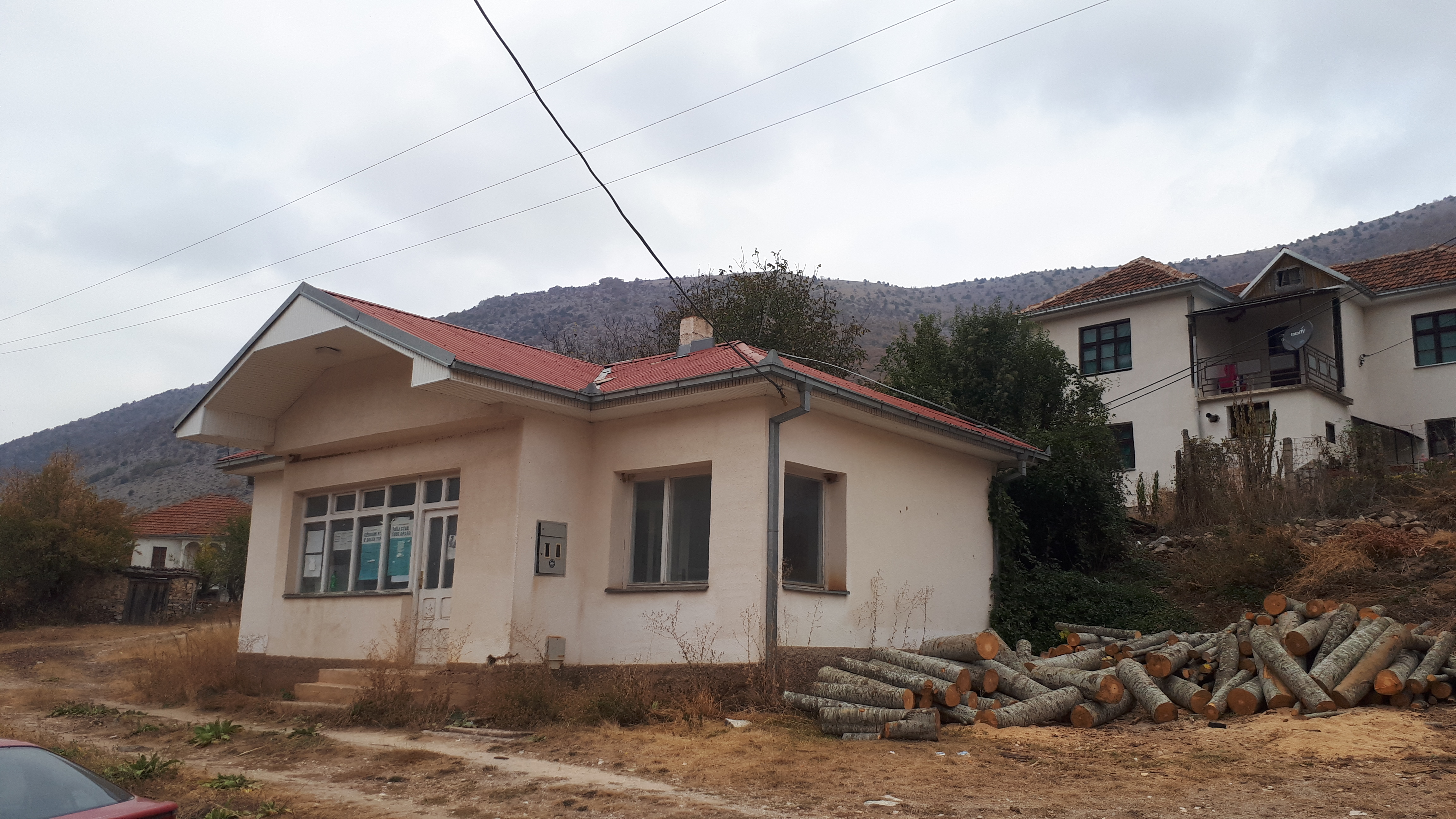 Municipal building in the village Cer